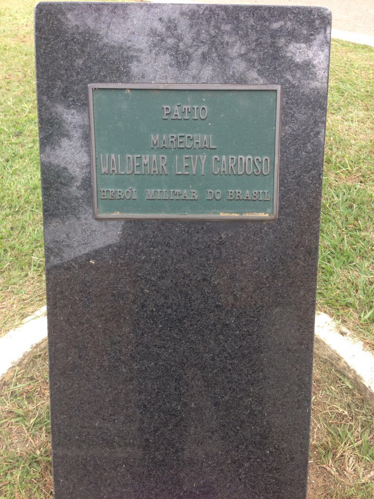 Court in tribute to Marshall Levy Cardoso, in Itu barracks.